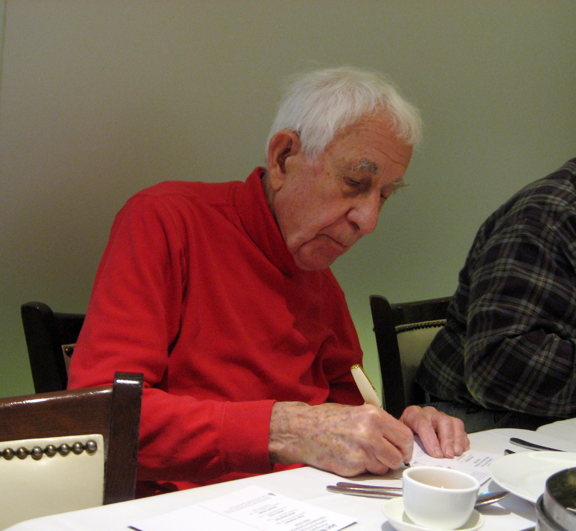 Jon Naar is an internationally acclaimed photographer and author/ coauthor of 12 books encompassing design and architecture, environment, ecology, portraiture, photojournalism, and fine art.